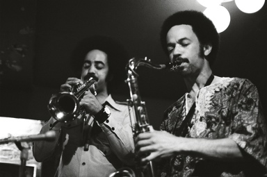 Cecil & Ron Bridgewater at Boomer's NYC 1976